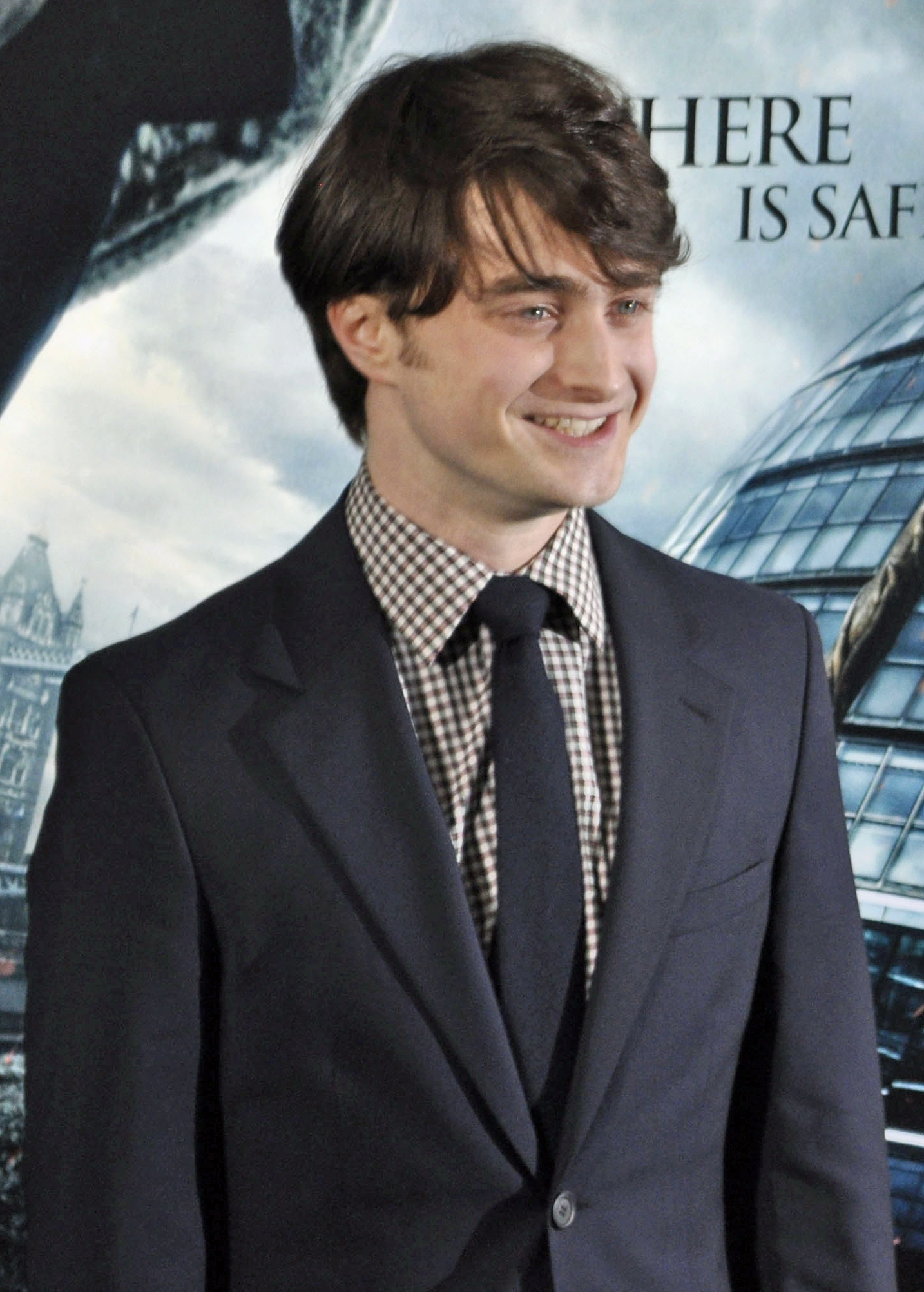 Daniel Radcliffe at the film premiere of Harry Potter and The Deathly Hallows in Alice Tully Center, New York City in November 2010.